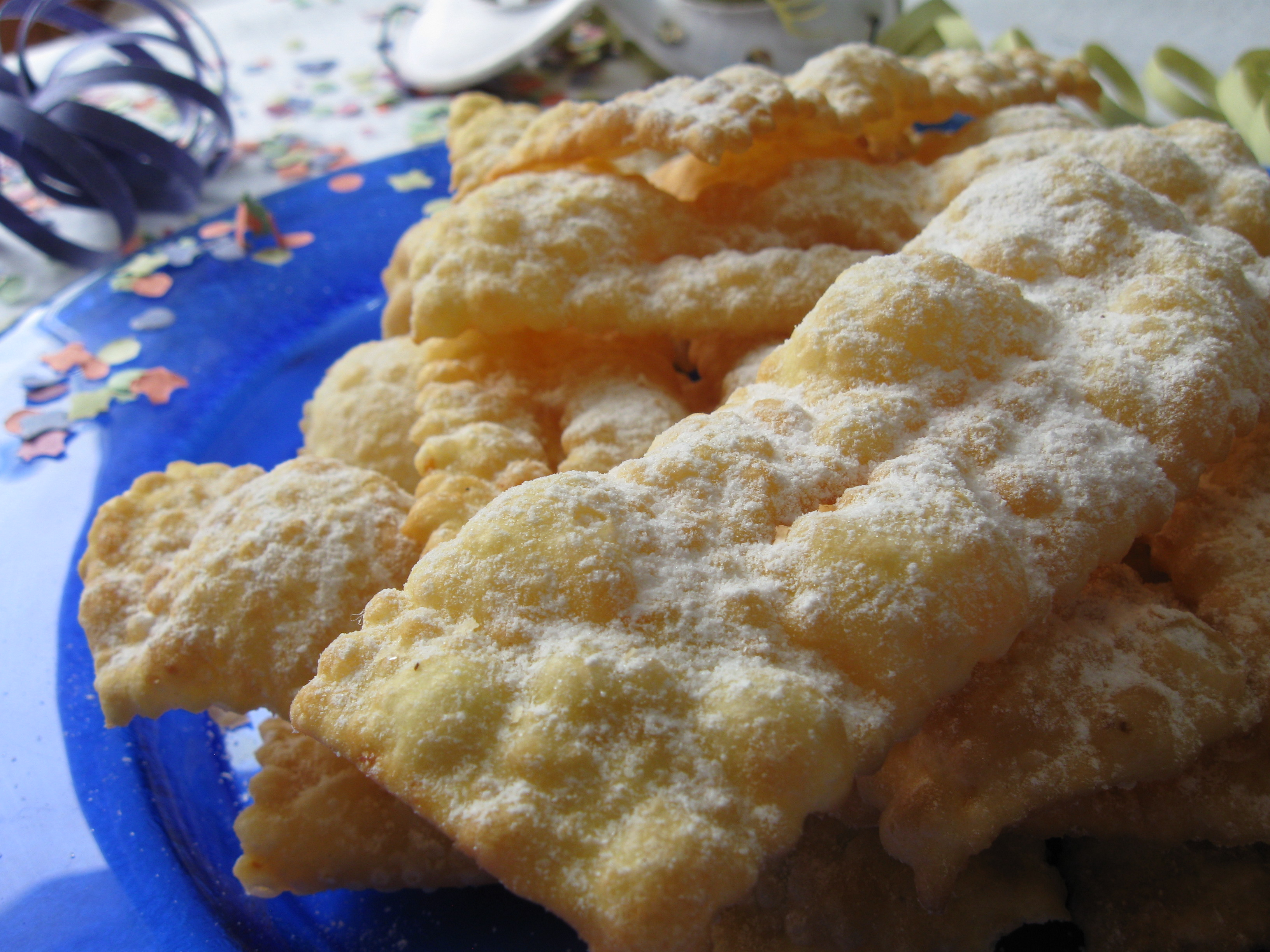 Italian carnival sweets, with powdered sugar, known as scorpelle, bugie, cenci, chiacchiere, cròstoli, galani, lasagne, lattughe, pampuglie, rosoni sfrappole or frappe.